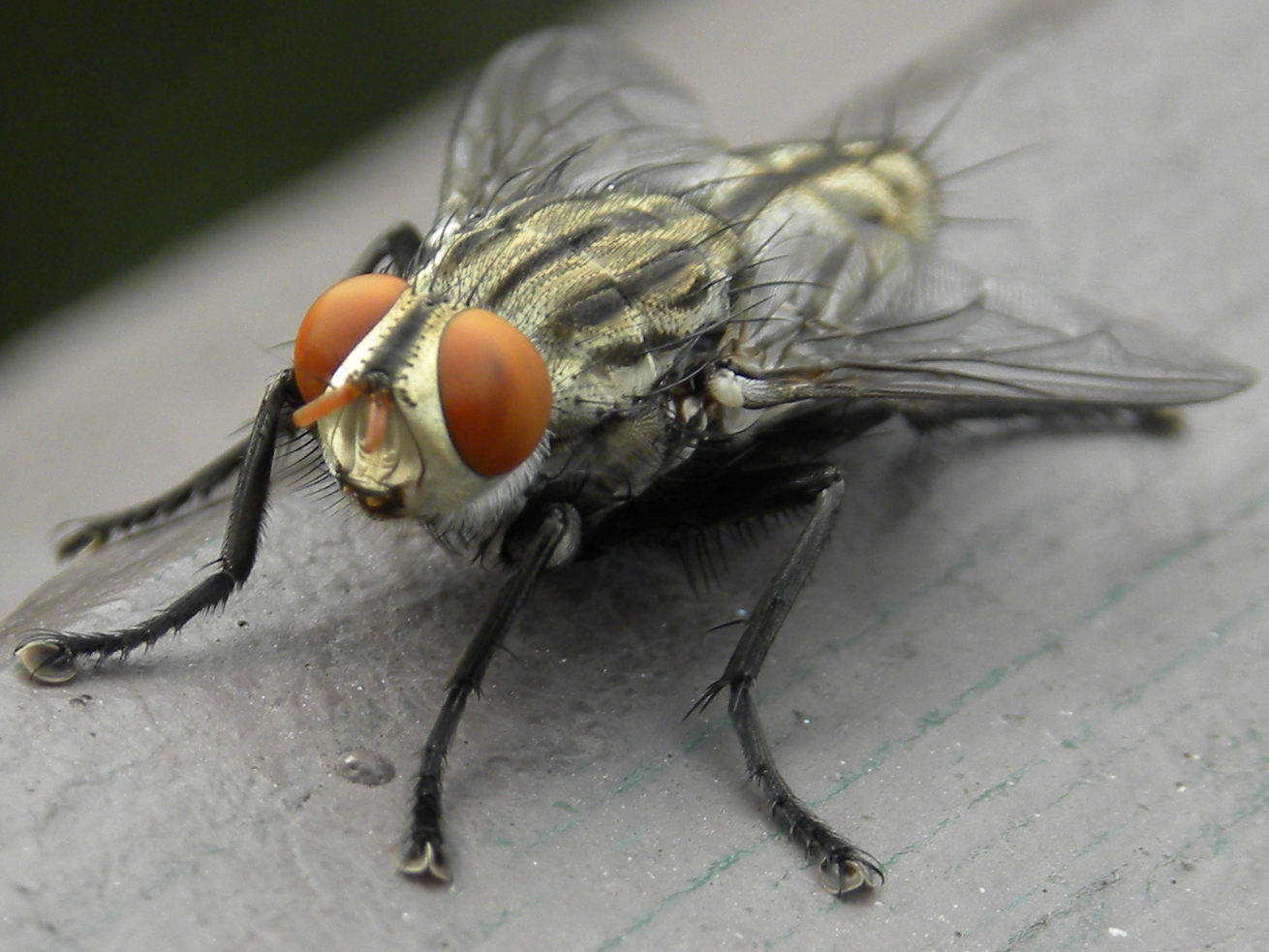 Australian Grey Striped Fly (Sarcophaga_aurifrons)